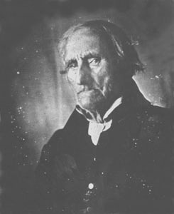 Daguerreotype of Conrad Heyer (April 10, 1749 – February 19, 1856), possibly the earliest born person to be photographed